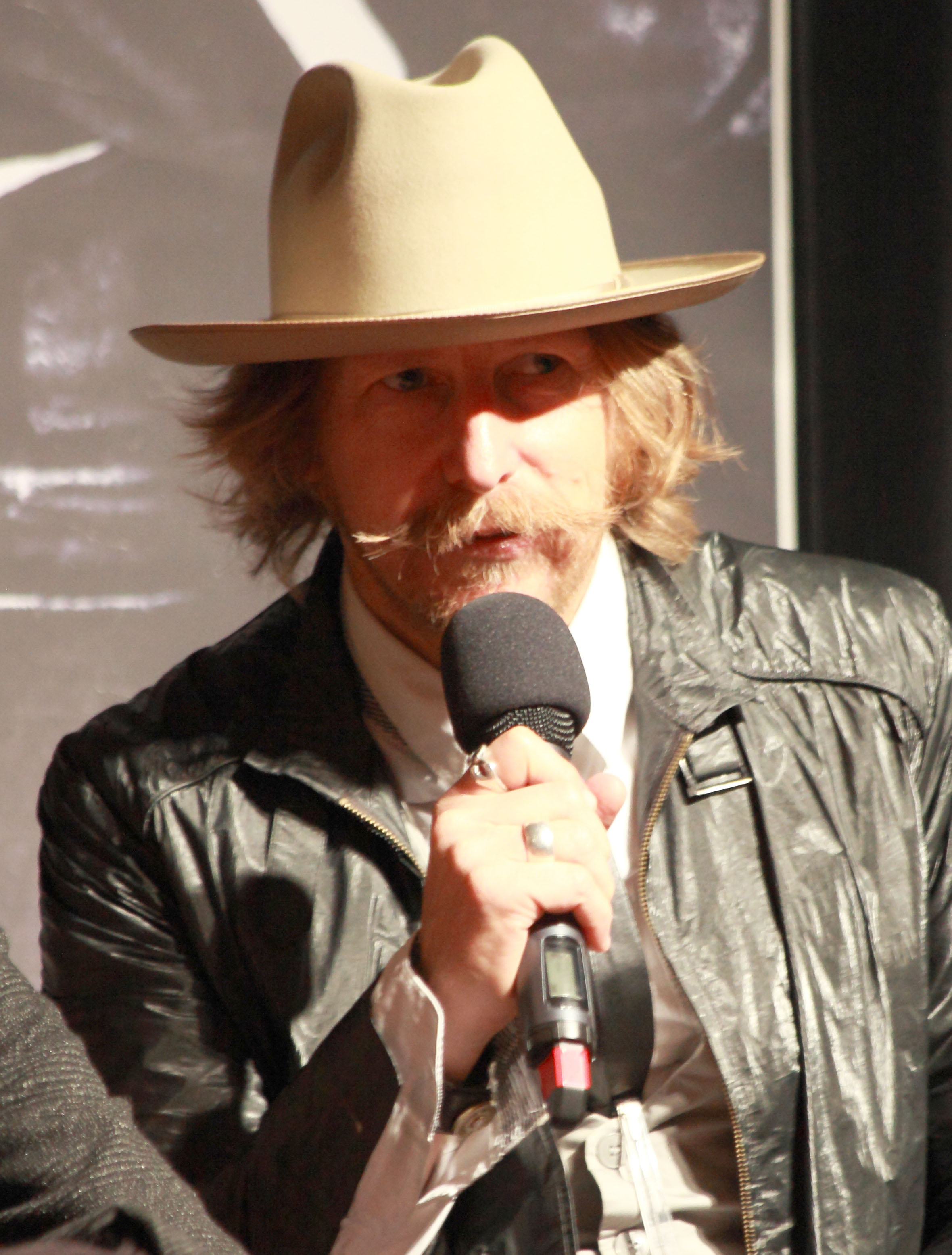 Lew Temple ("Axel") from "The Walking Dead" at Spooky Empire's Ultimate Horror Weekend 2014 held in Orlando, Florida.